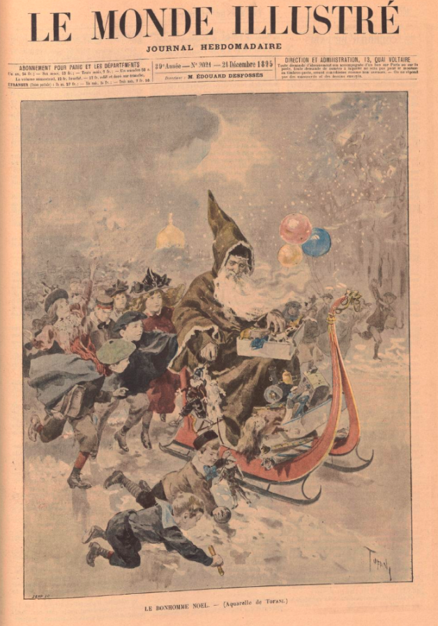 Le Bonhomme Noël, designed by Osvaldo Tofani for Le Monde illustré, weekly illustrated magazine published in Paris December 21, 1895.